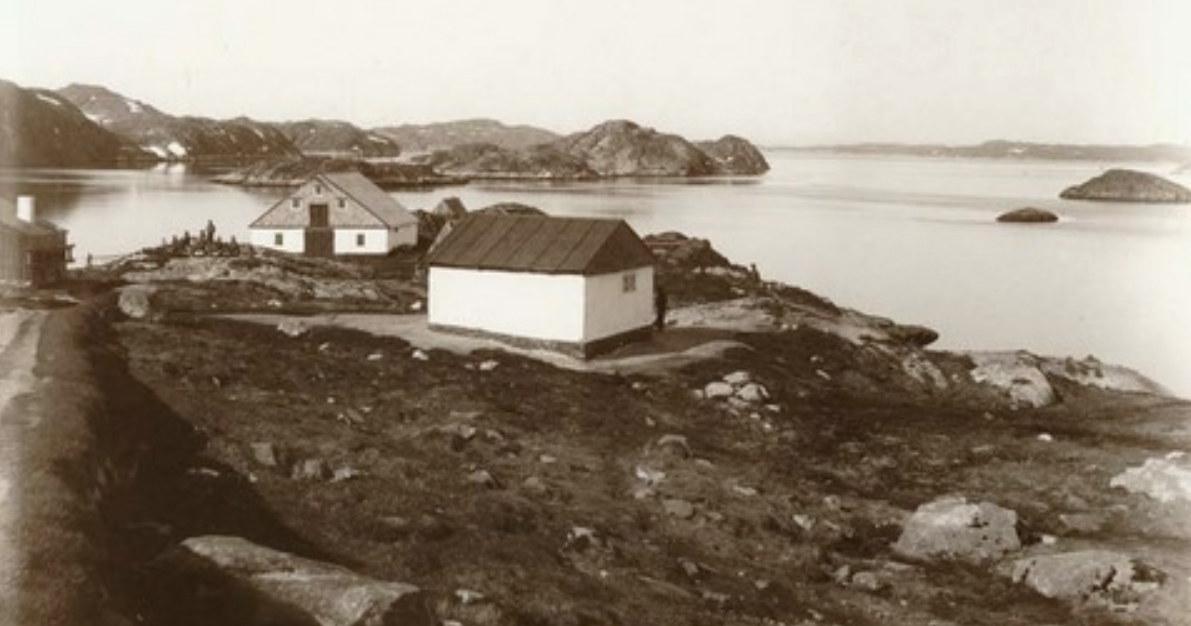 Qeqertarsuatsiaat 1893